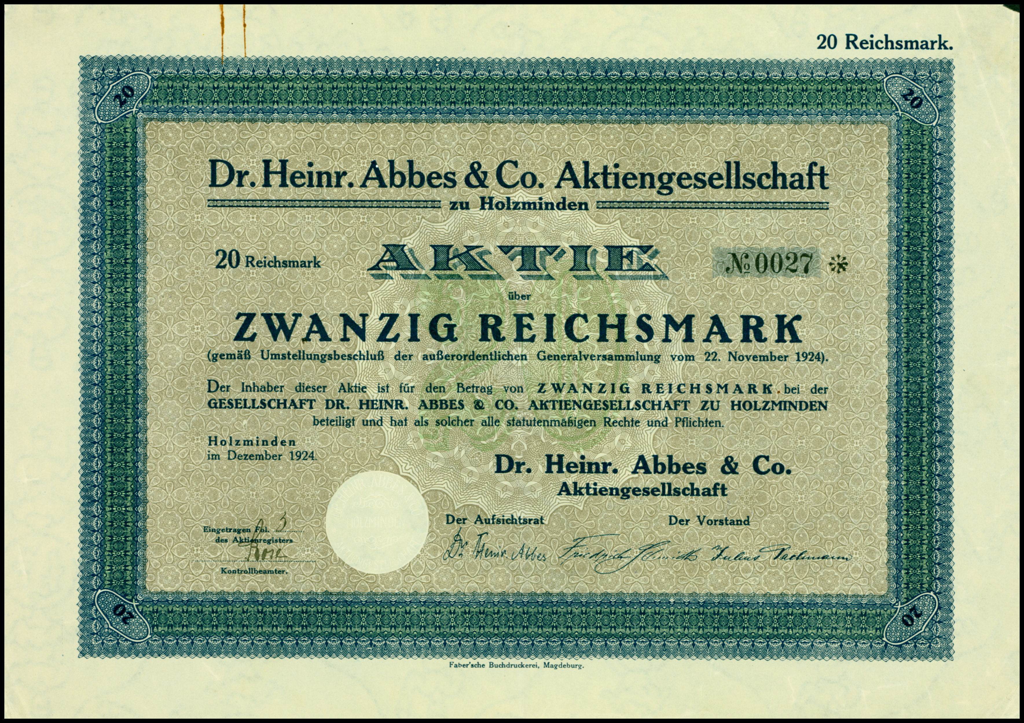 Share of the Dr. Heinr. Abbes & C.o AG, issued December 1924